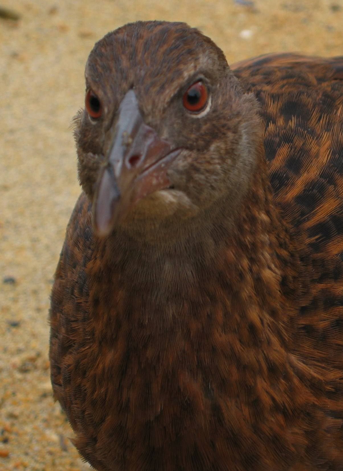 Weka on Ulva Island, off Stewart Island, New Zealand